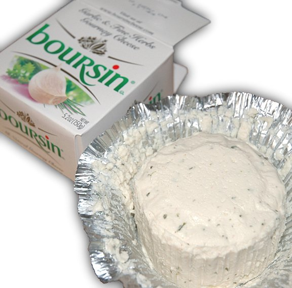 Boursin - French cheese, this picture was made by myself